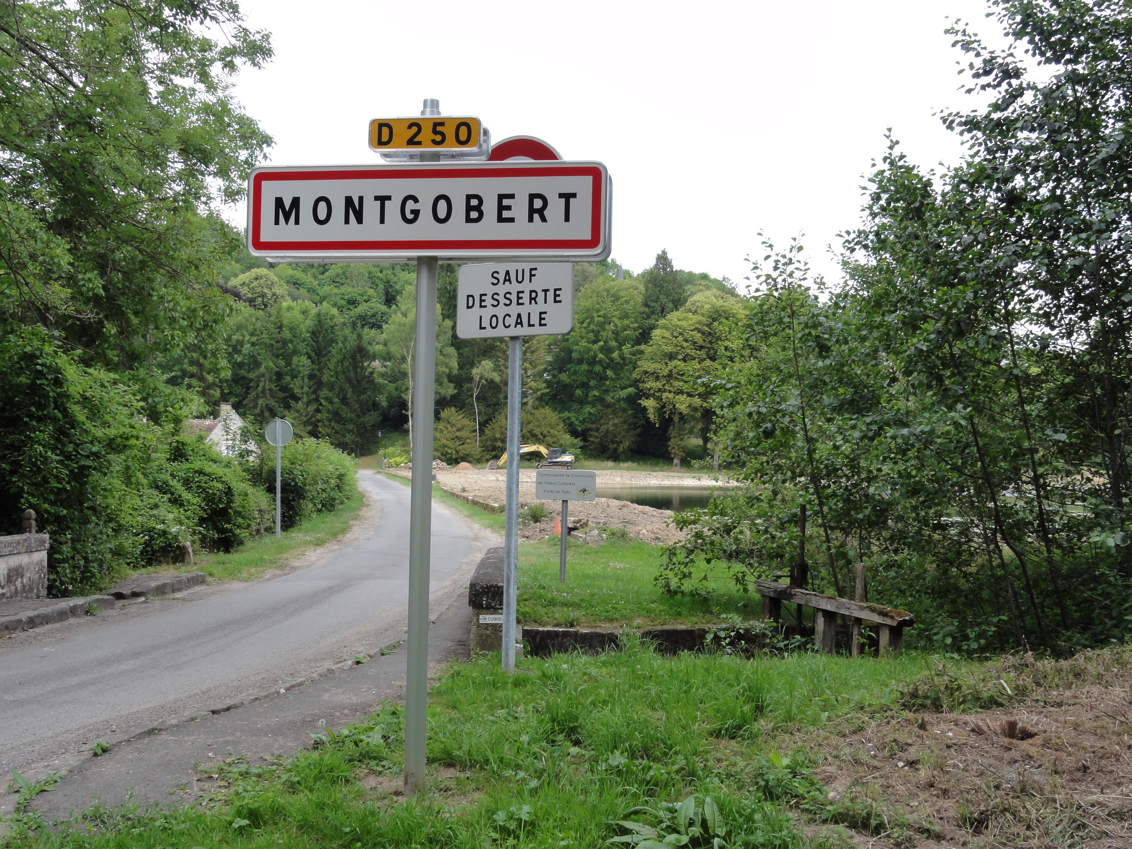 Montgobert (Aisne) city limit sign